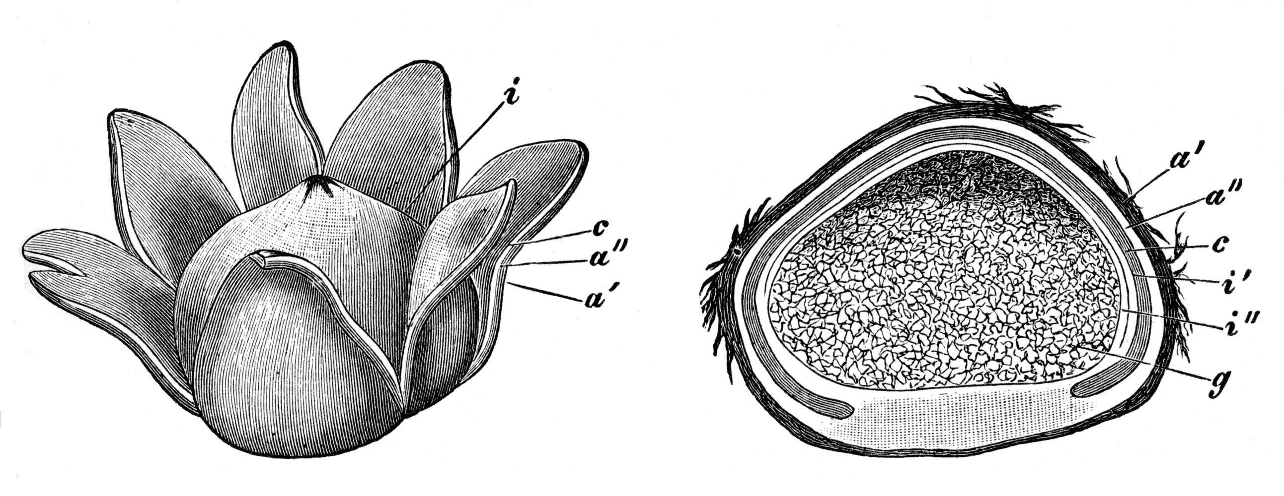 Figure caption: Astraeus hygrometricus. (left) Mature fructification. (right) Section of young fructification. i, i', i , endoperidia; a', a , exoperidia; g. gleba.